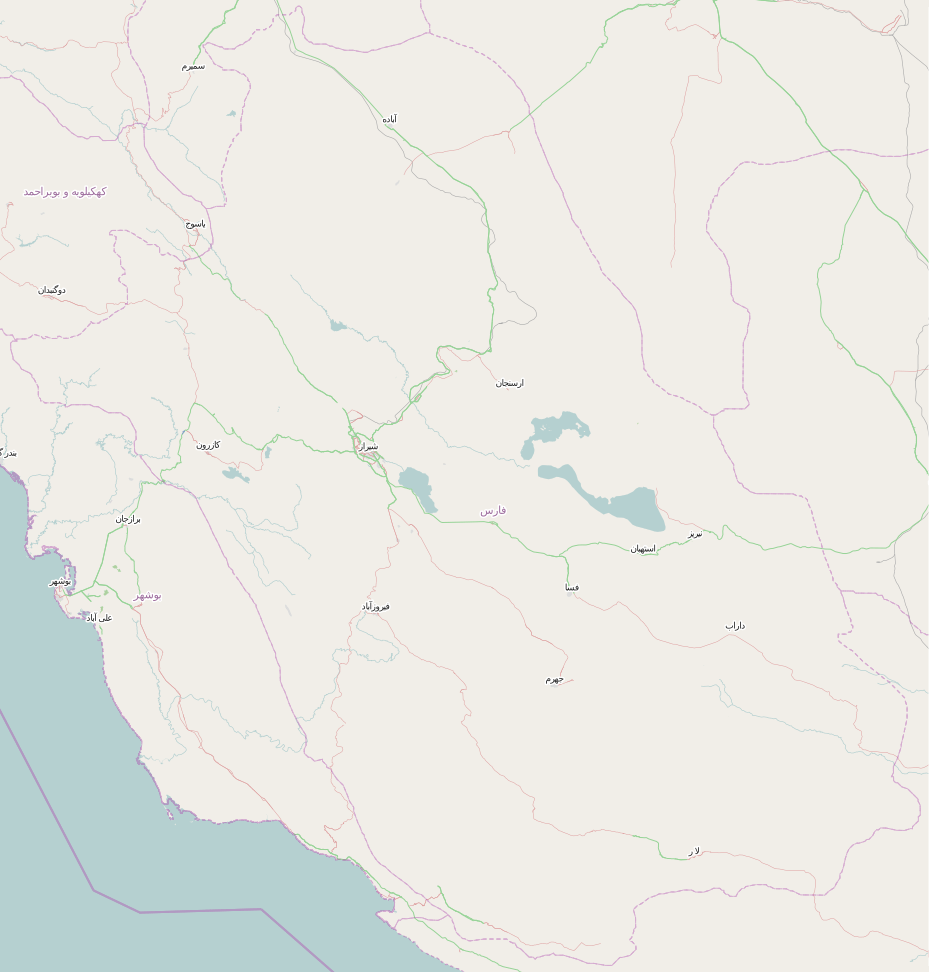 This map may be incomplete, and may contain errors. Don't rely solely on it for navigation.